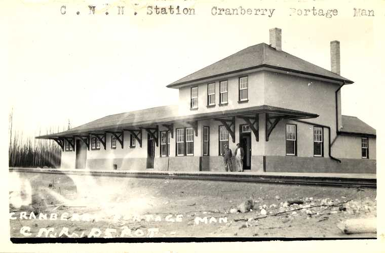 Monotone postcard with sepia tone of the Canadian National Railway station at Cranberry Portage, Manitoba. Title taken from bottom of front of postcard. Typed at top of front of postcard: "C.N.R. Station Cranberry Portage Man."